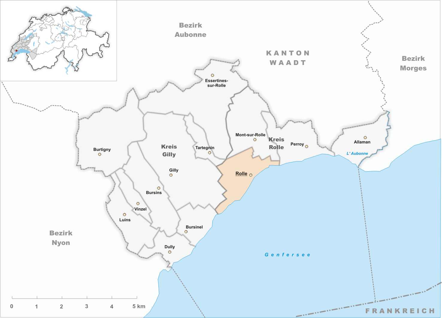 Municipality Rolle